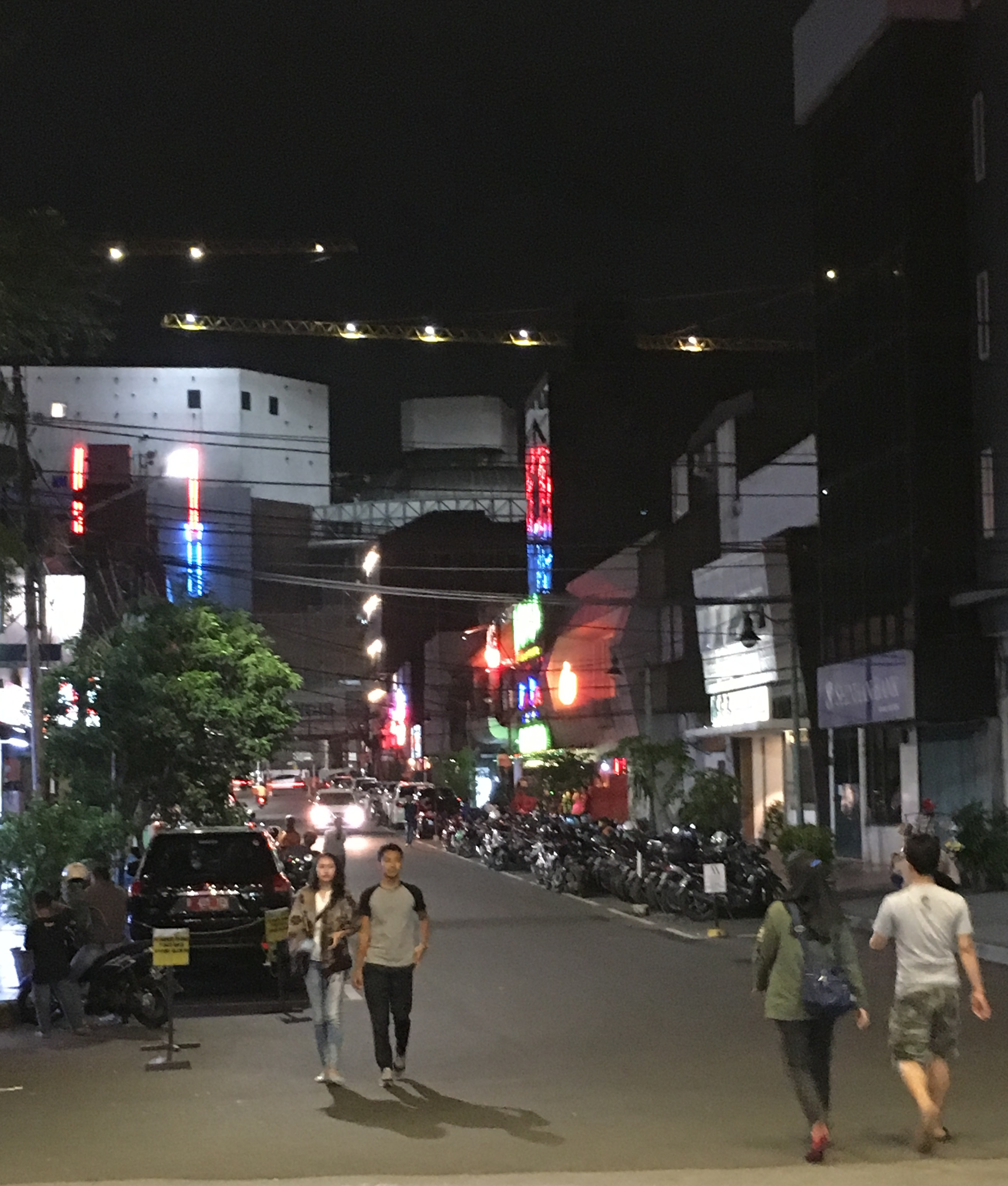 Blok M, Jakarta at night